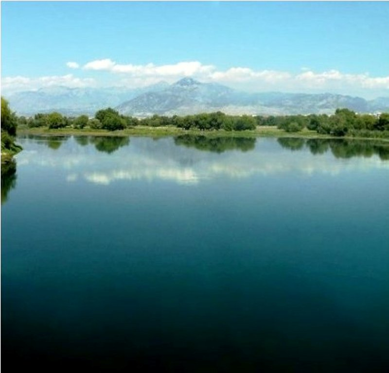 River Buna at Shkodër, Albania